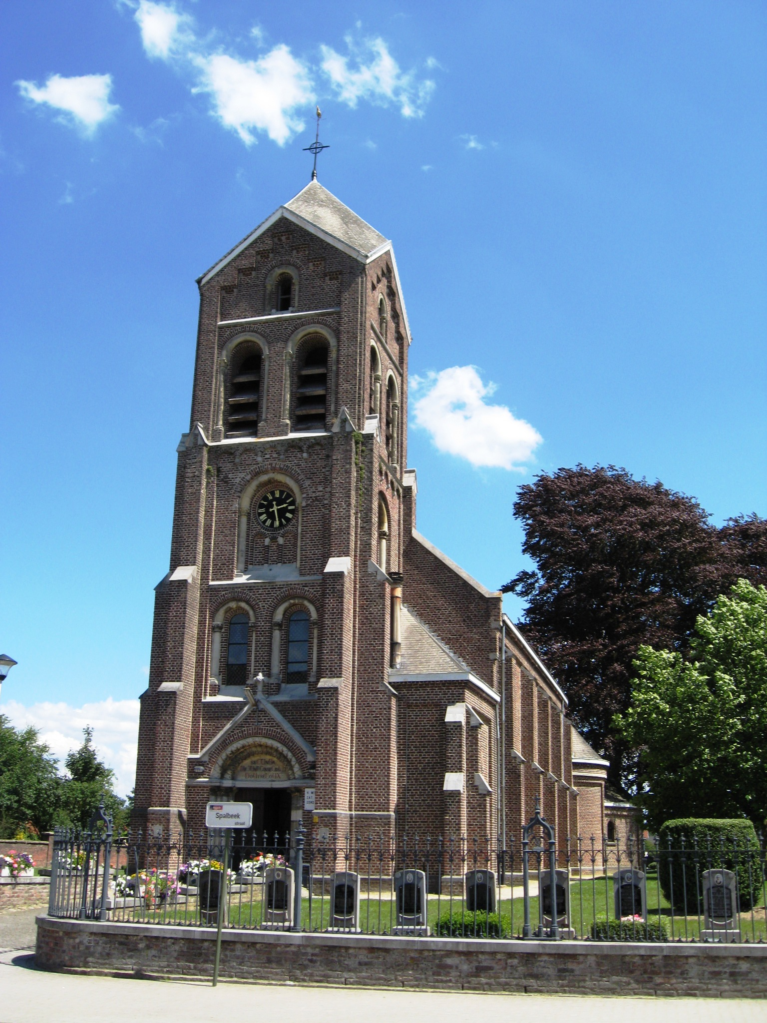 Church of the Annunciation to Mary in Spalbeek, Limburg, Belgium